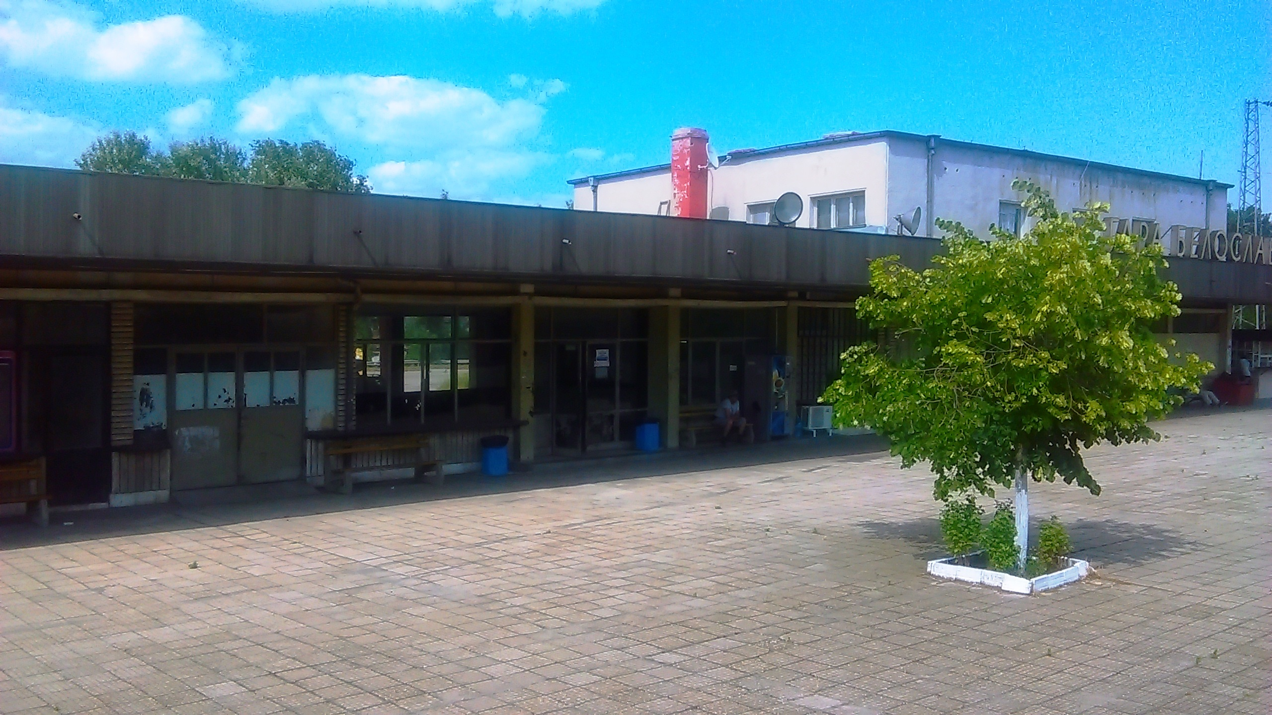 Beloslav railway station